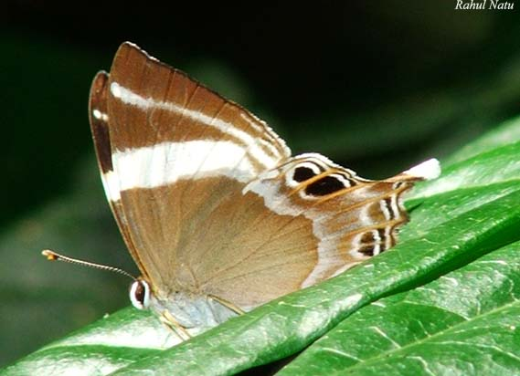 The image shows a Tailed Judy, Abisara neophron butterfly of Family Riodinidae shot by Rahul Natu in Namdapha National Park, Arunachal Pradesh on 19 Nov 2005. The image is created by and is the contribution to Wikimedia commons of Rahul Natu for use in Indian butterflies project in wikipedia. Uploaded by User:Nature Loader with specific permission of Rahul Natu.